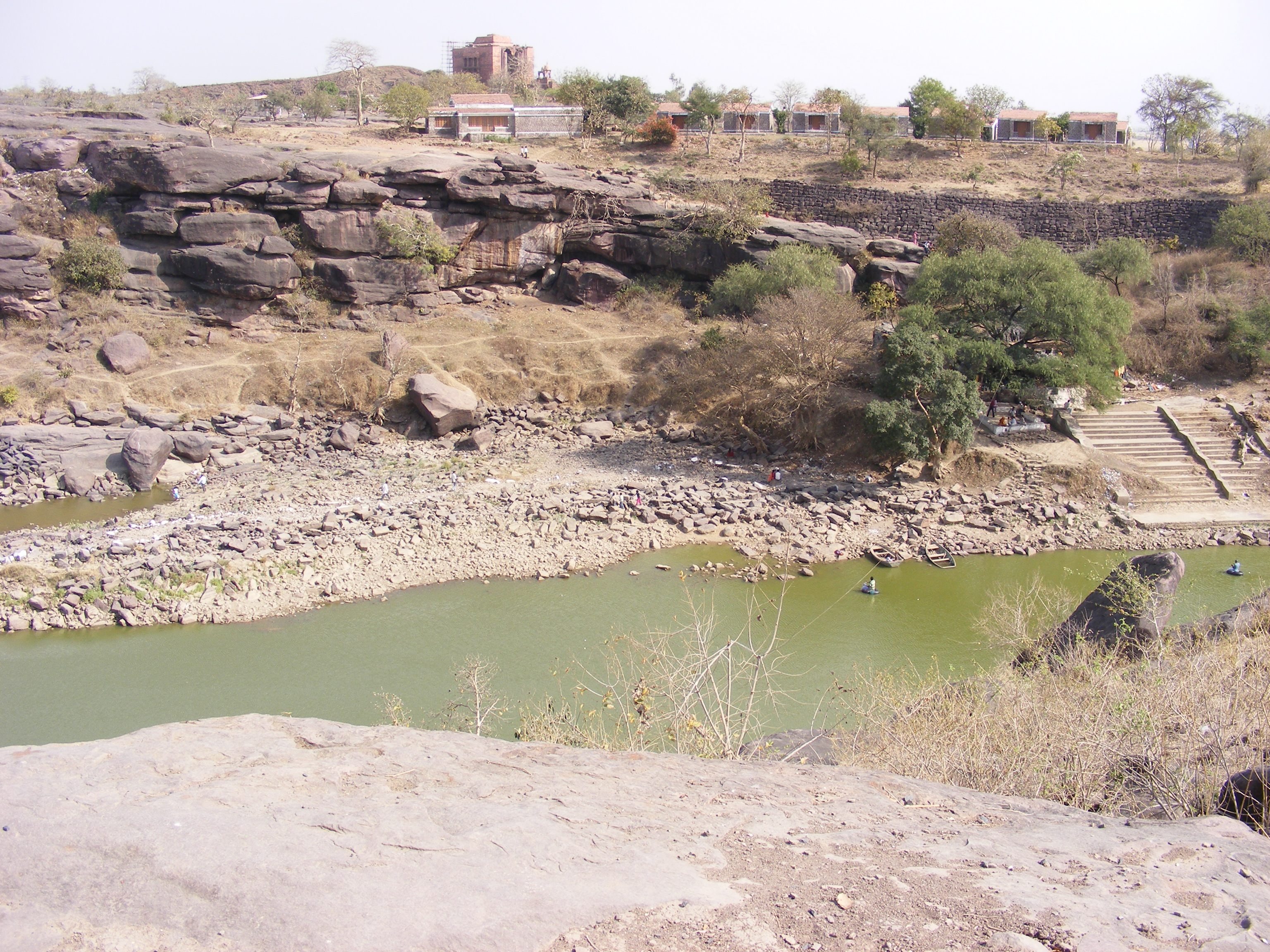 Picture showing close view of River Betwa near Bhojpur, Madhya Pradesh, India